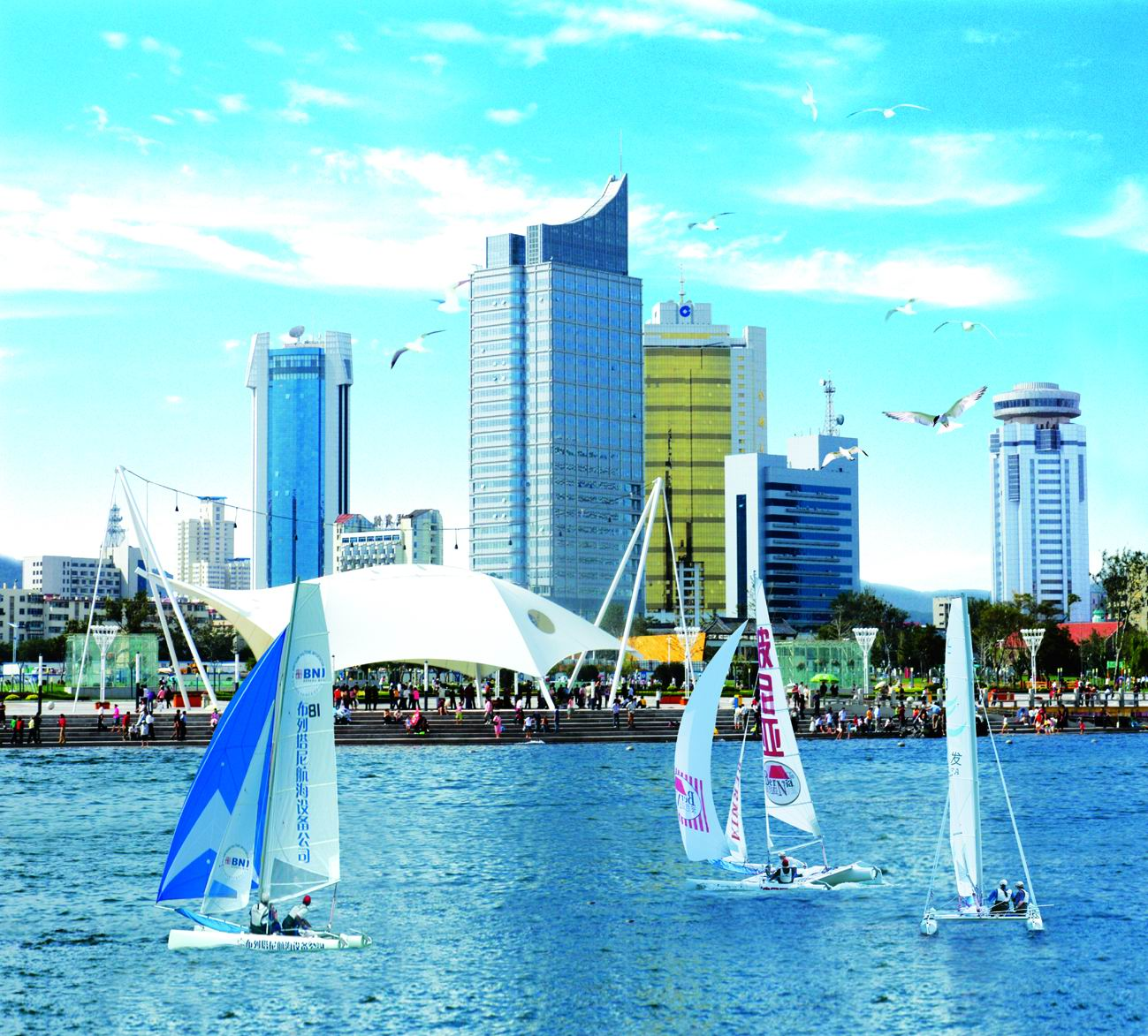 The waterfront of Yantai, Shandong, China.